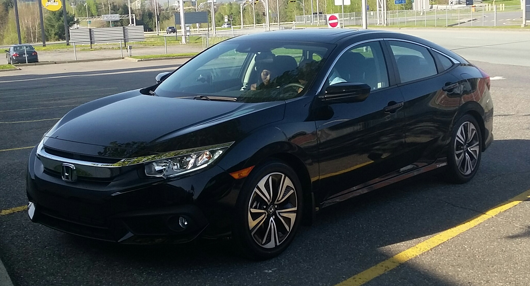 2016 Honda Civic photographed in Stanstead, Quebec, Canada.